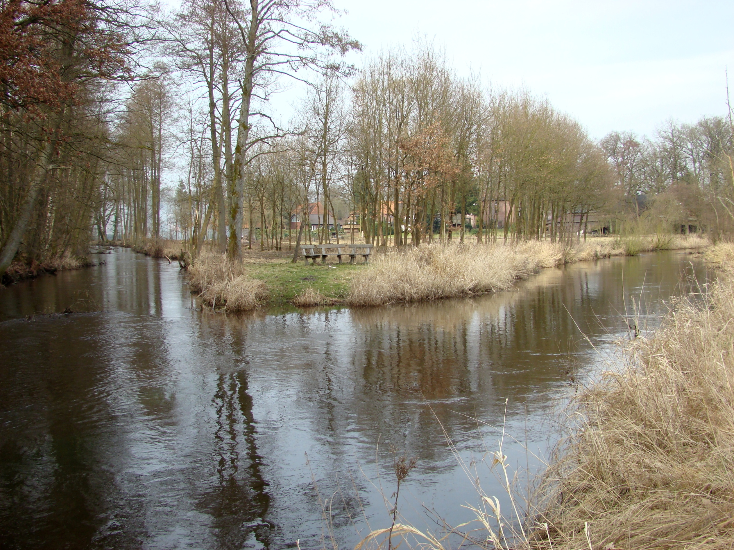 Confluence of the Wietze and Örtze rivers at Müden, Lower Saxony, Germany